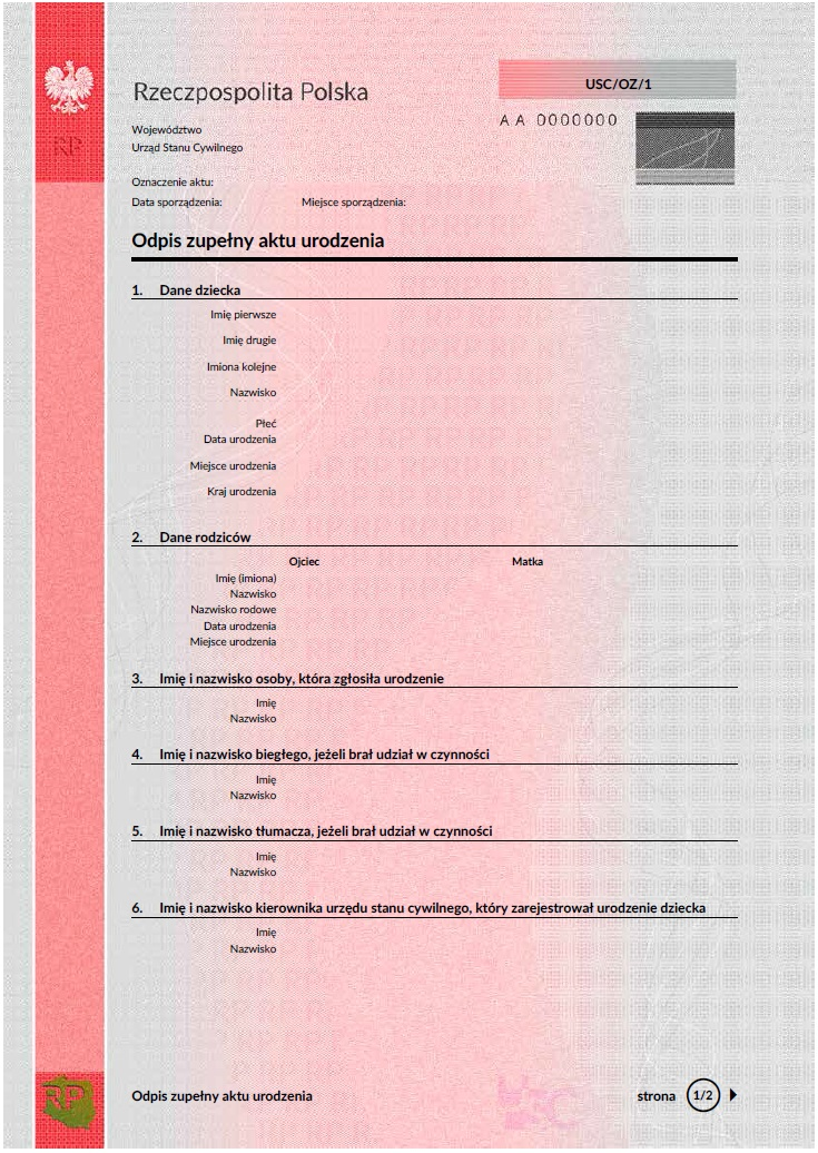 Polish birth certificate, page 1 of 2, new version since 2015